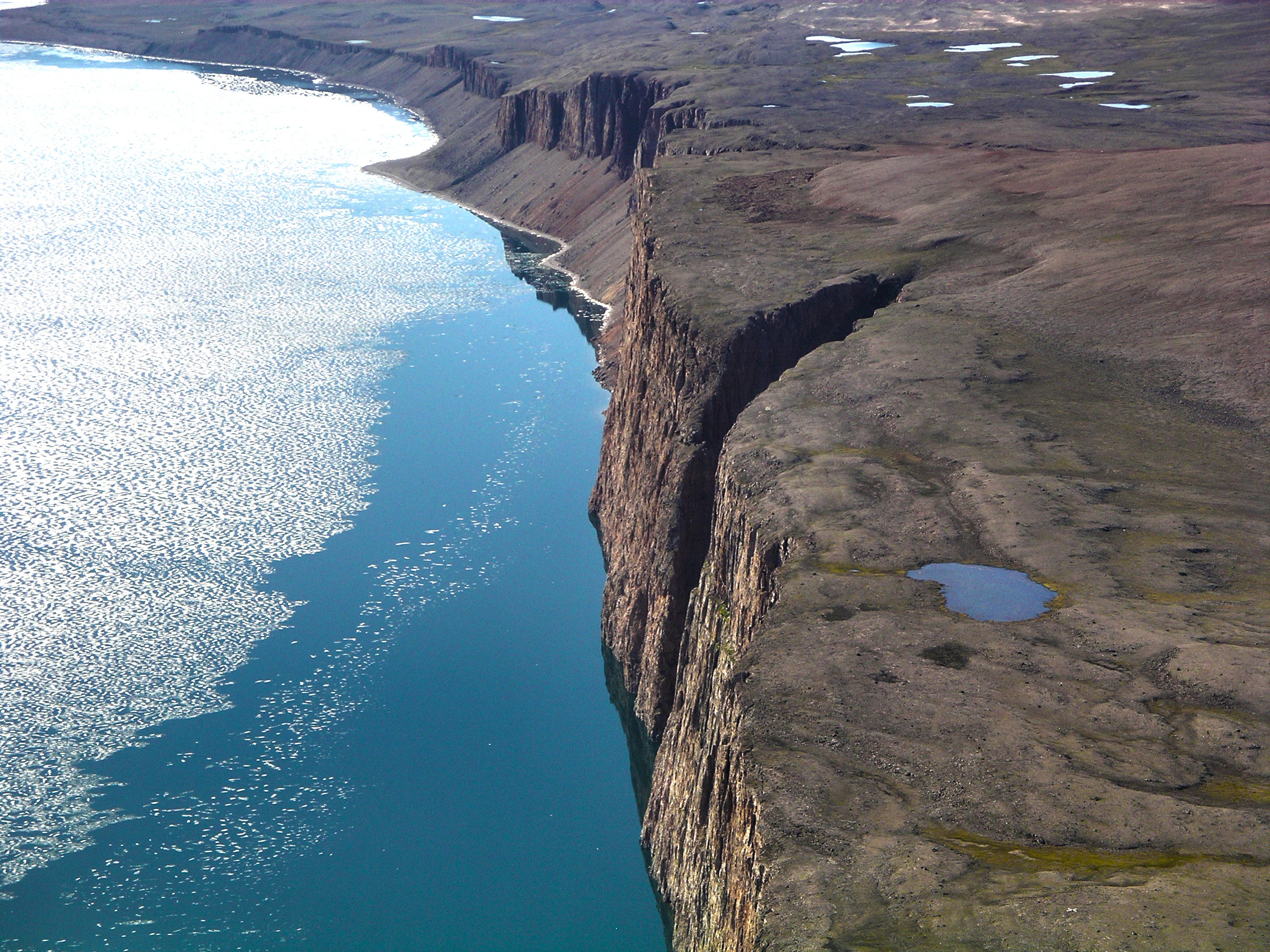 Some of the beautiful landscape that surrounds Arctic Bay.